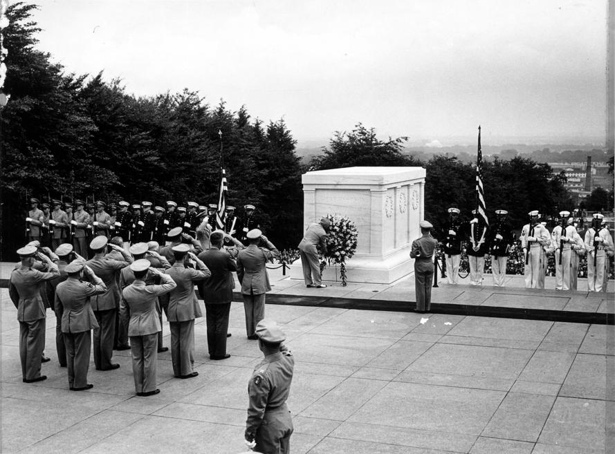 Harry S. Truman speaking at Memorial Day services at the Amphitheatre of Arlington National Cemetery. May 30, 1948.